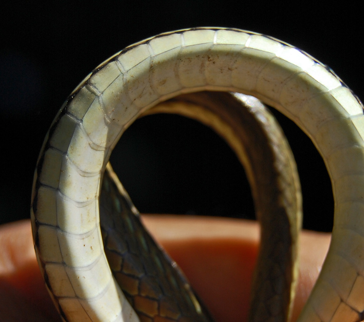 Dendrelaphis pictus, from Bogor, West Java, Indonesia